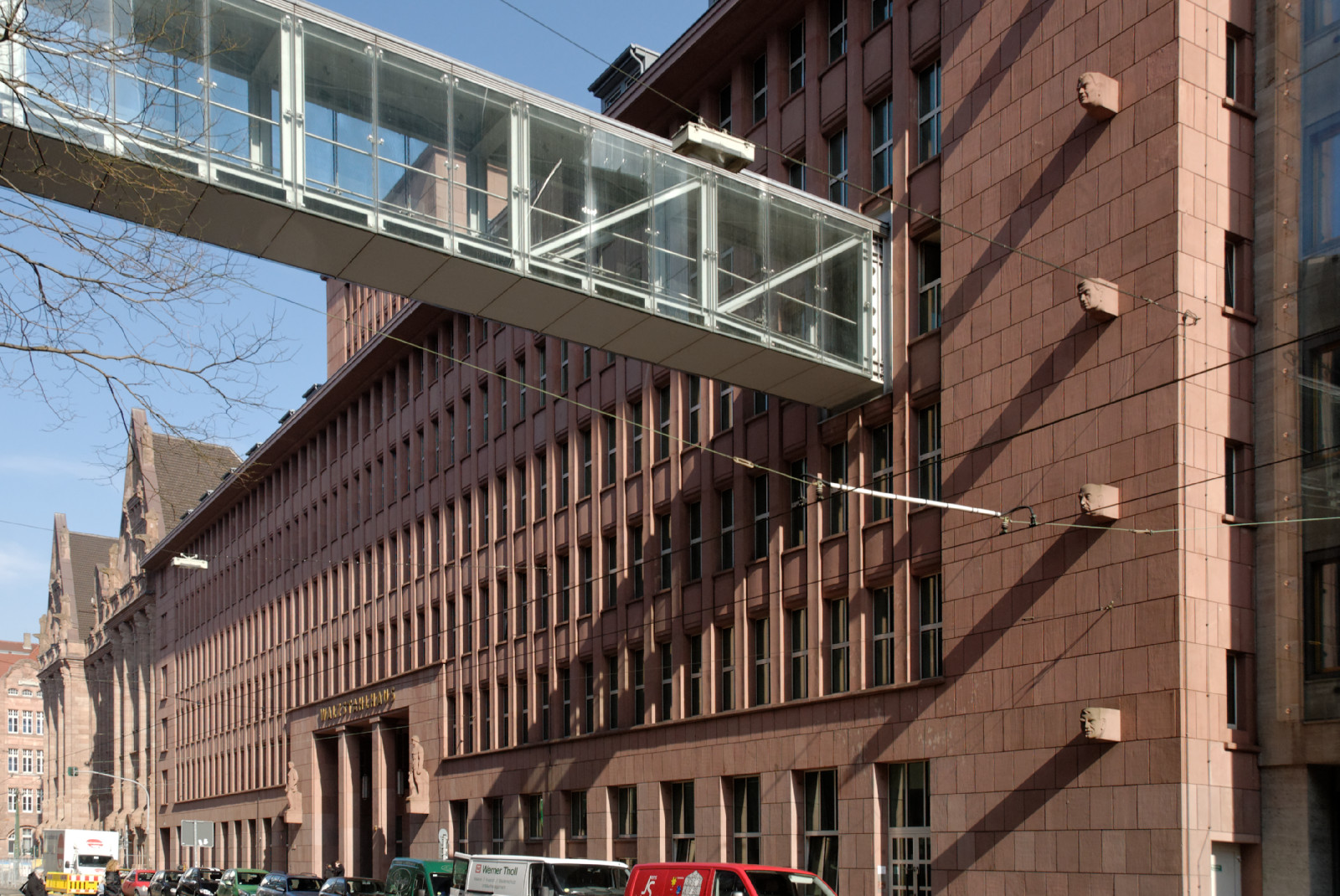 Walzstahlhaus in Düsseldorf-Stadtmitte, Germany